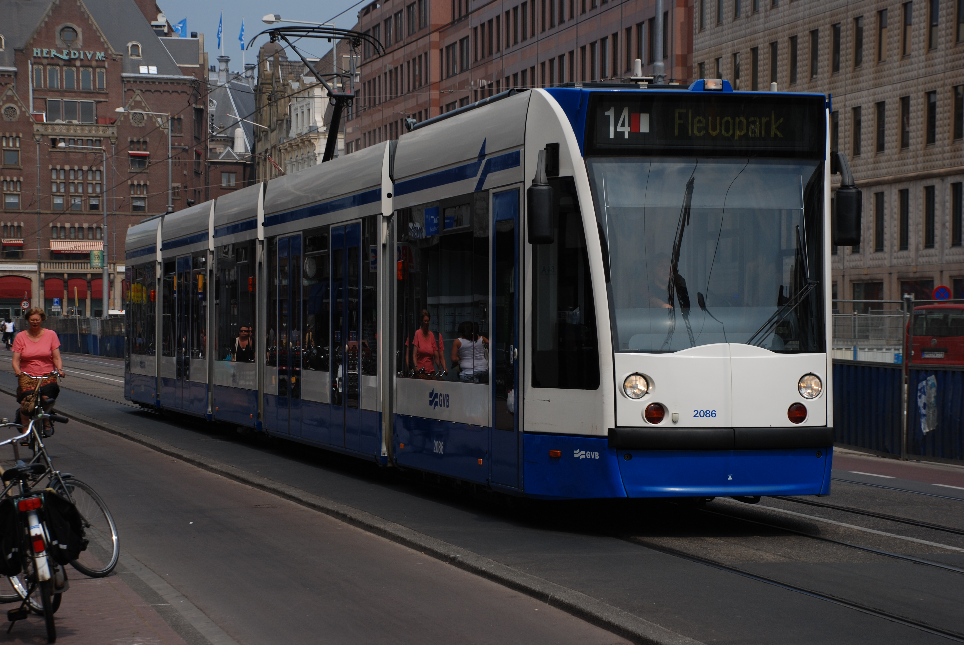 A typical streetcar found in Amsterdam.